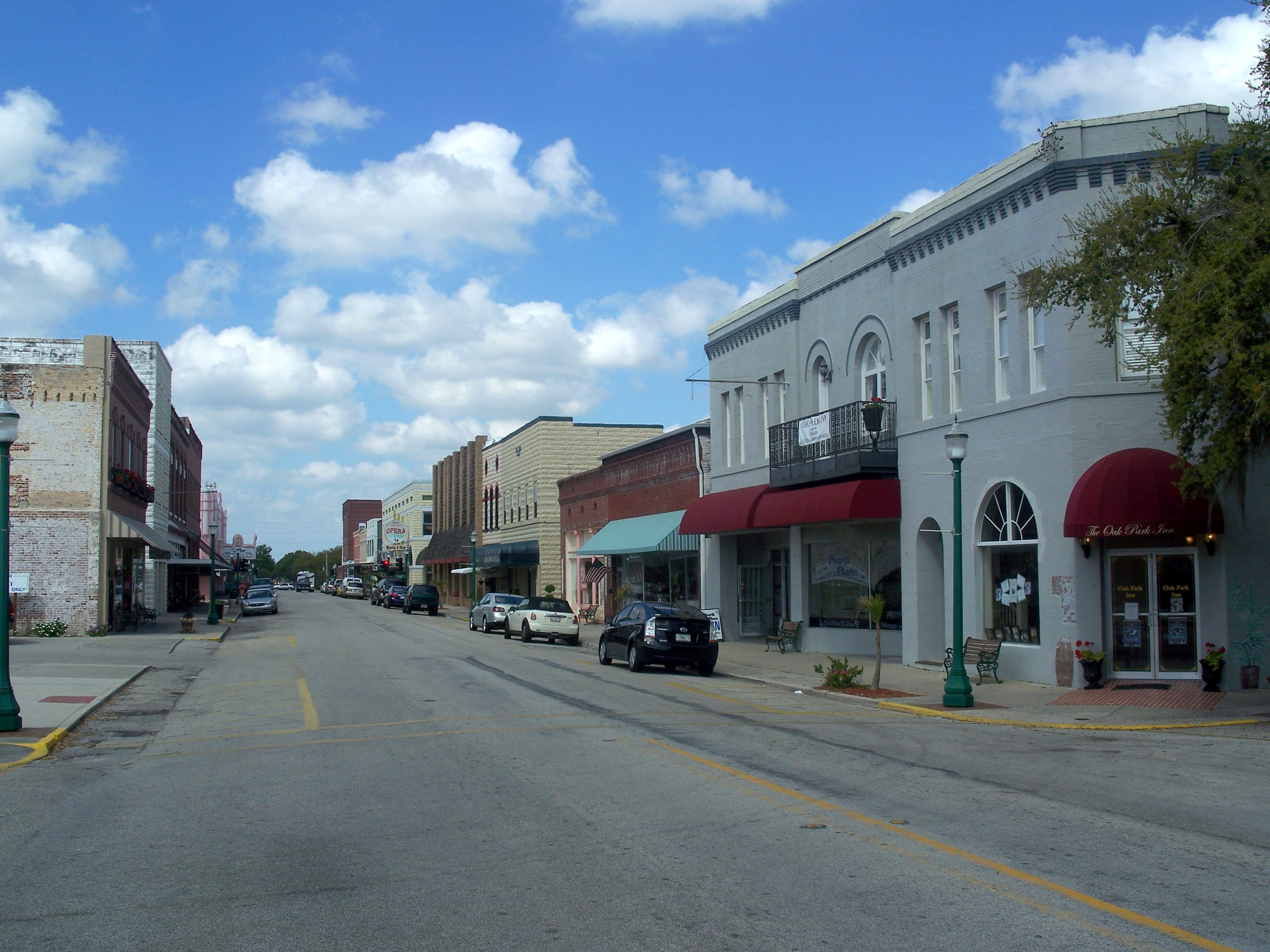 Arcadia, Florida: Arcadia Historic District: Oak Street, looking west. On the right are, from near to far: Daniel T. Carlton Block, William H. Seward Building and W. E. Daniels Buildings